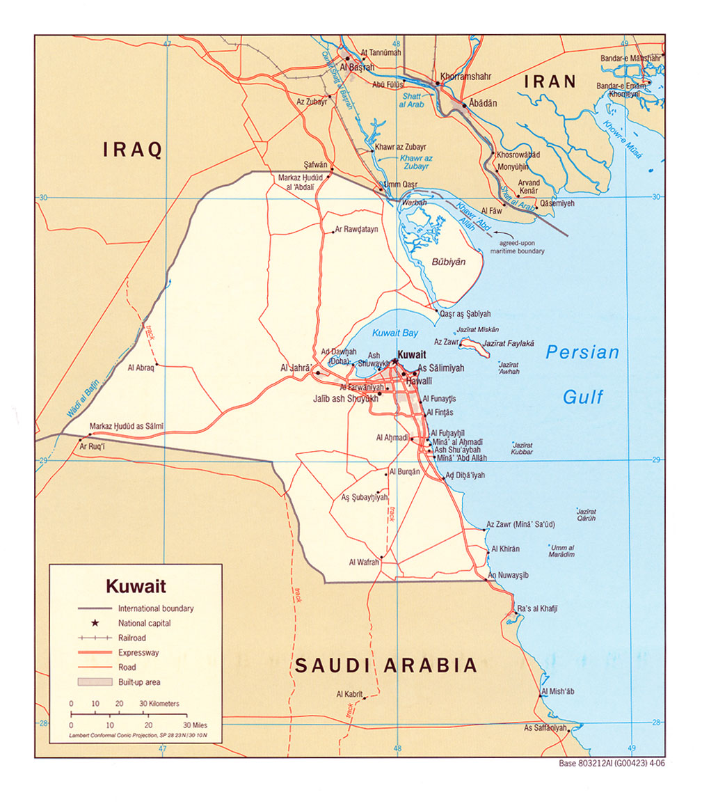 Kuwait (Political) 2006